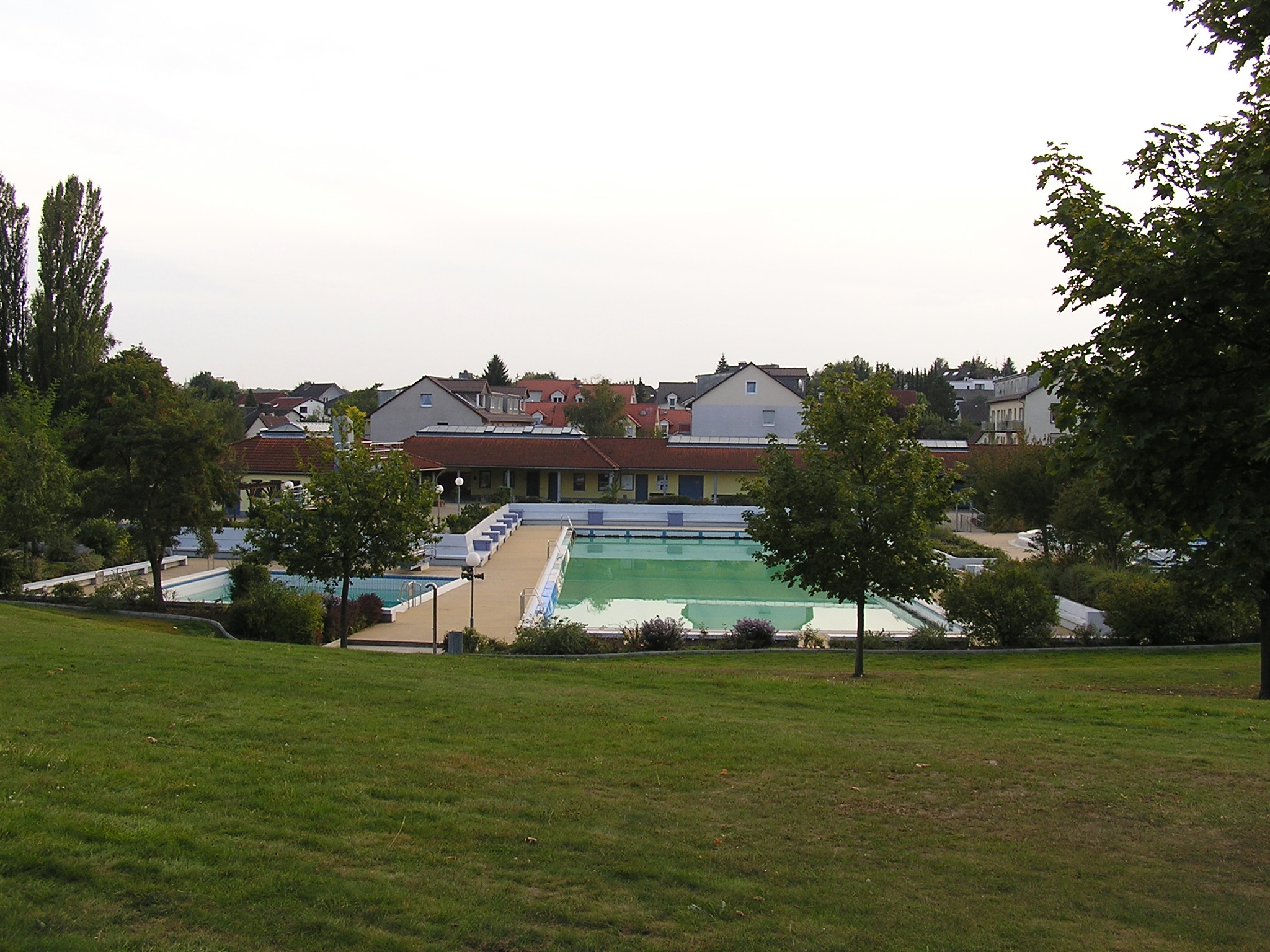 The open air bath of Friedrichsdorf